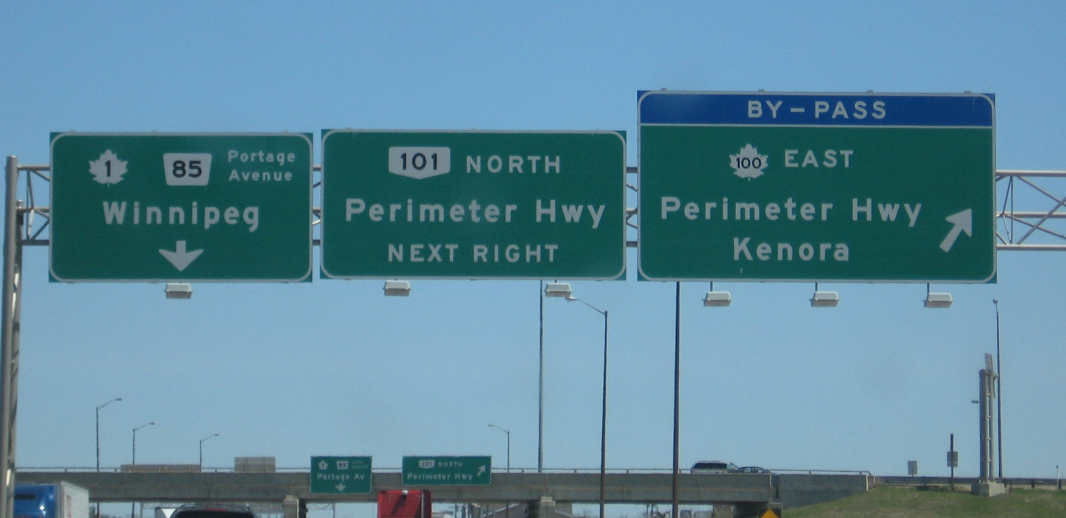 Trans Canada Highway Bypass (Highway 100) sign on the west side of Winnipeg